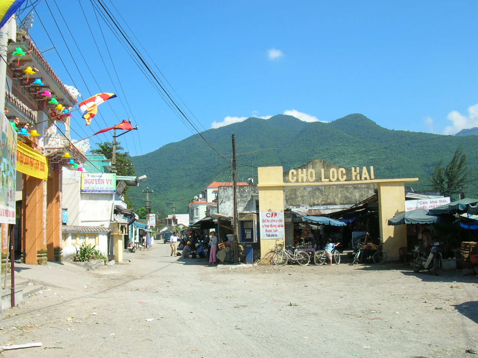 Description: Loc Hai market in Lang Co, Hue, Vietnam. Friday, May 19, 2006, 12:21:38 AM